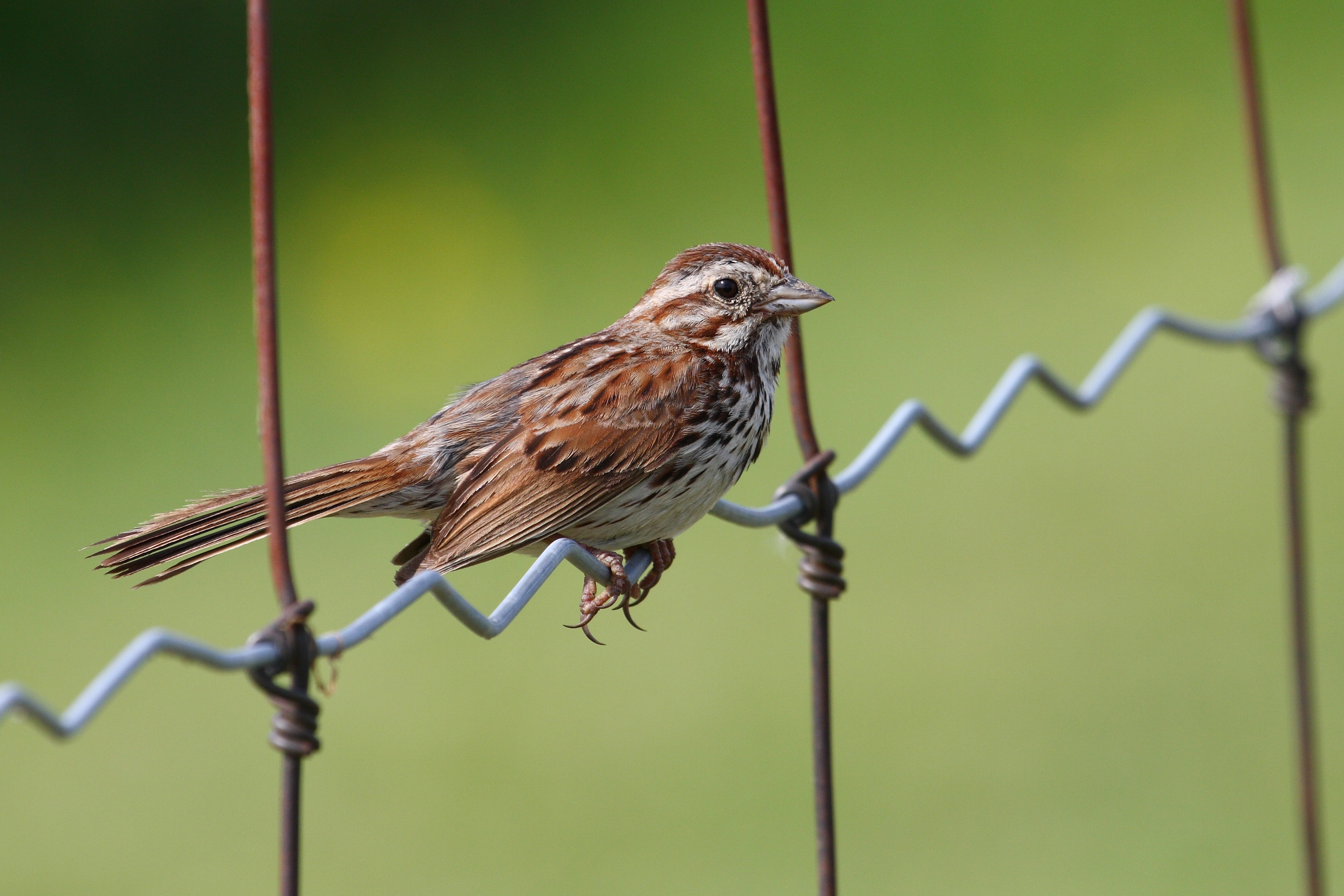 Song Sparrow, Refuge d'oiseaux de Nicolet, Quebec, Canada